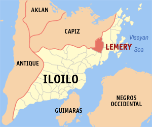 Map of Iloilo showing the location of Lemery